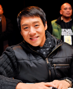 Richard Poon as photographed cc.